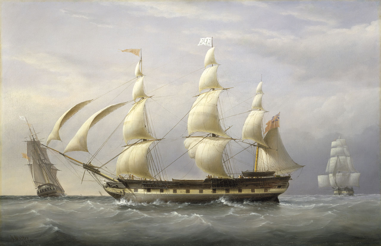 A portrait of the West Indiaman 'Britannia', shown in three positions. On the left the ship is shown in stern view and on the far right in bow view. The ship is shown port broadside in the foreground, flying the red ensign and a red pennant. The figurehead is appropriately in the form of 'Britannia' with helmet and trident clearly visible. There are sailors shown in the bow as well as some passengers on the deck. Several figures wear top hats and two women are visible through the rigging. The ship had just returned from a voyage to Barbados, where it suffered a severe hurricane on 28 June 1838. The artist's son was on board, since he had tuberculosis and had been given a free trip to Barbados by the ship's master, Captain William Simmonds. This helped him to recover and the picture was the artist's present to Simmonds, in gratitude. On the same return to Bristol, Simmonds was also presented with a goblet in gratitude for the skilful way in which he dealt with the hurricane. The artist has bathed the painting in soft light and his careful handling of the subject reflects the purpose of the work. The 'Britannia' was built in Bristol in 1829 and was used for the Barbados trade. Her owners were Thomas Daniel of Bristol and John Daniel of London: Simmonds became her master in 1836. The ship sank in 1849 off Wexford, on the coast of Ireland, when bound for Madeira and Barbados. Although her cargo was lost the crew were saved. The artist was born in Bristol and was a pupil of Thomas Lang. He lived and worked in the commercial port there and his familiarity with marine subjects suggests that he may for a time have gone to sea. He was considered the leading ship-portrait painter in Bristol during the 19th century and this painting shows his close attention to the details of a specific ship's appearance and rig. The painting is signed and dated, lower left, 'J. Walter 1838' and is inscribed on the back, 'Captain Symonds Bristol to the West Indies'